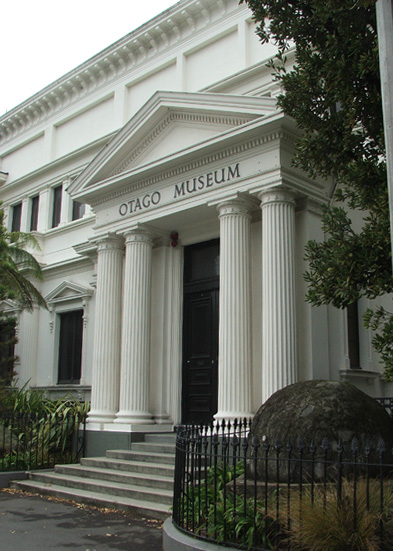 Otago Museum, Dunedin, New Zealand - original building